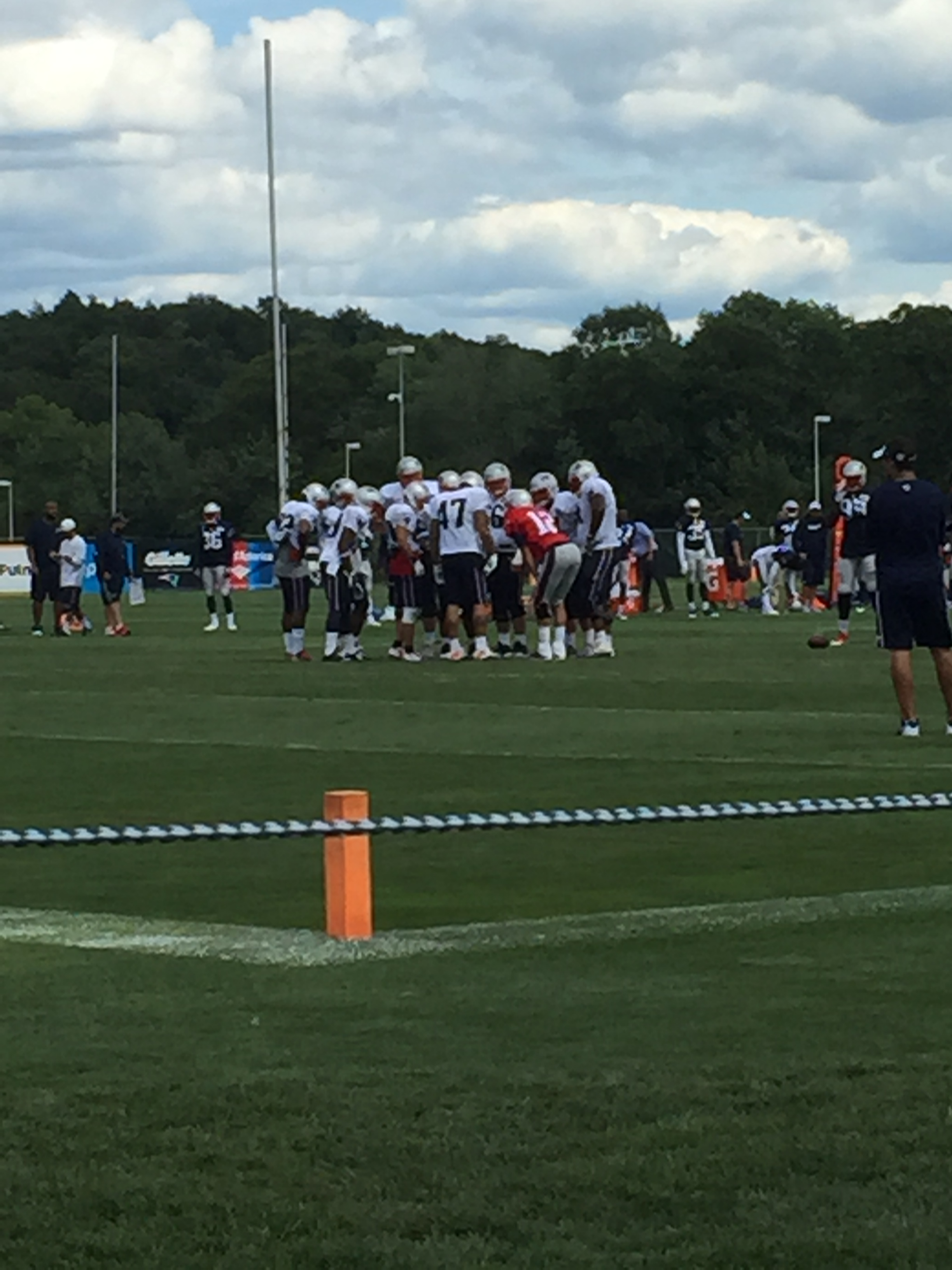 Tom Brady huddles with the players